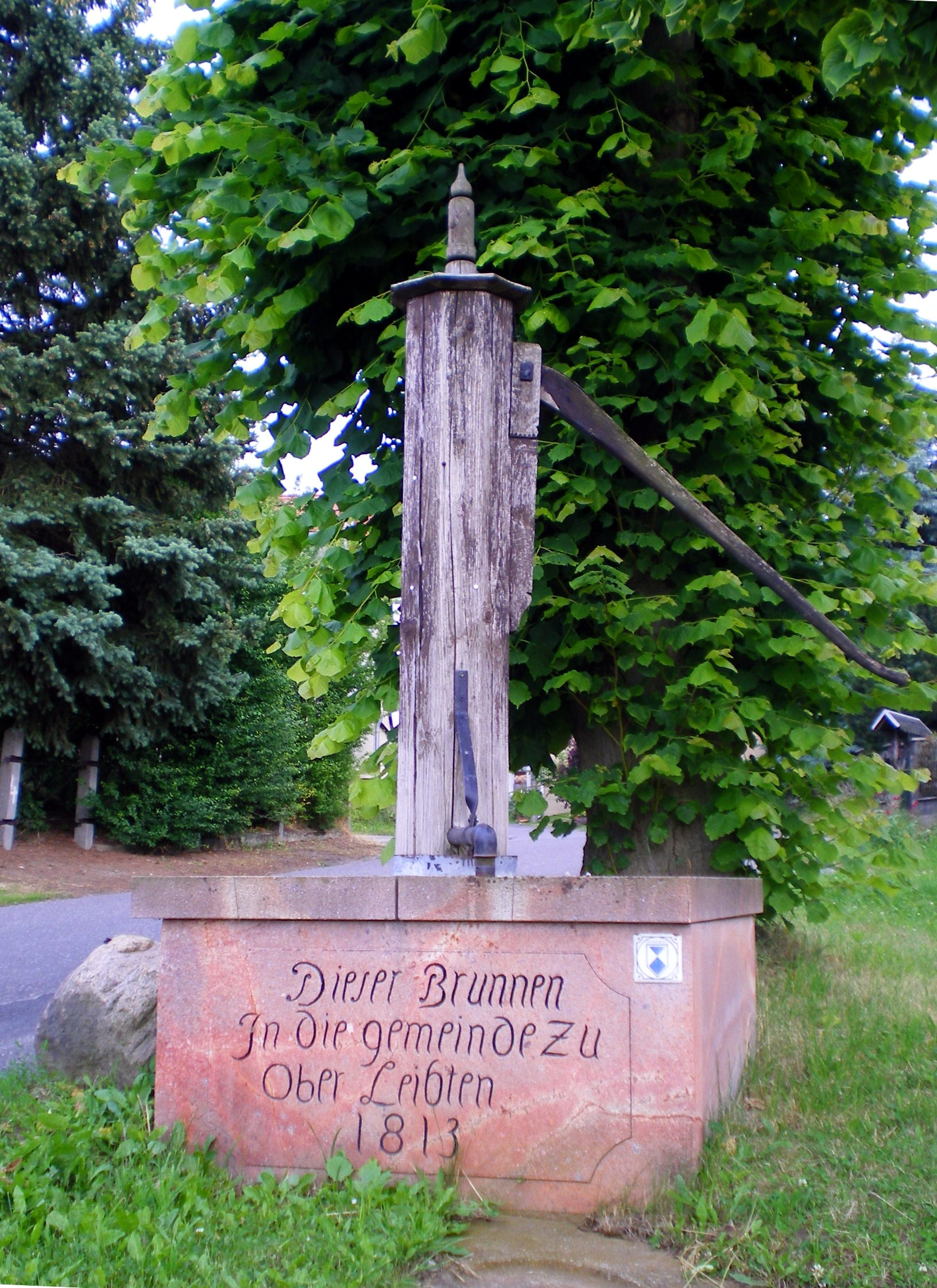 Fountain in Nobitz-Oberleupten near Altenburg/Thuringia